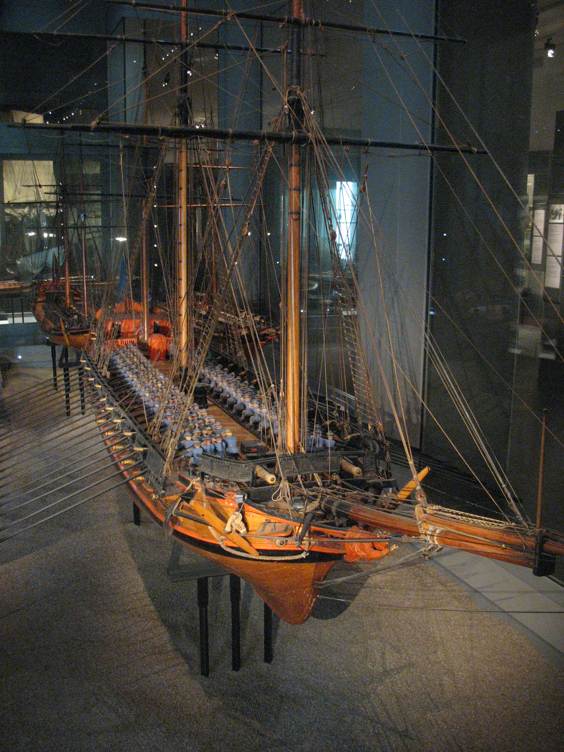 Contemporary model of the turuma Lodbrok (built 1771) at the Maritime Museum in Stockholm. Scale 1:16.